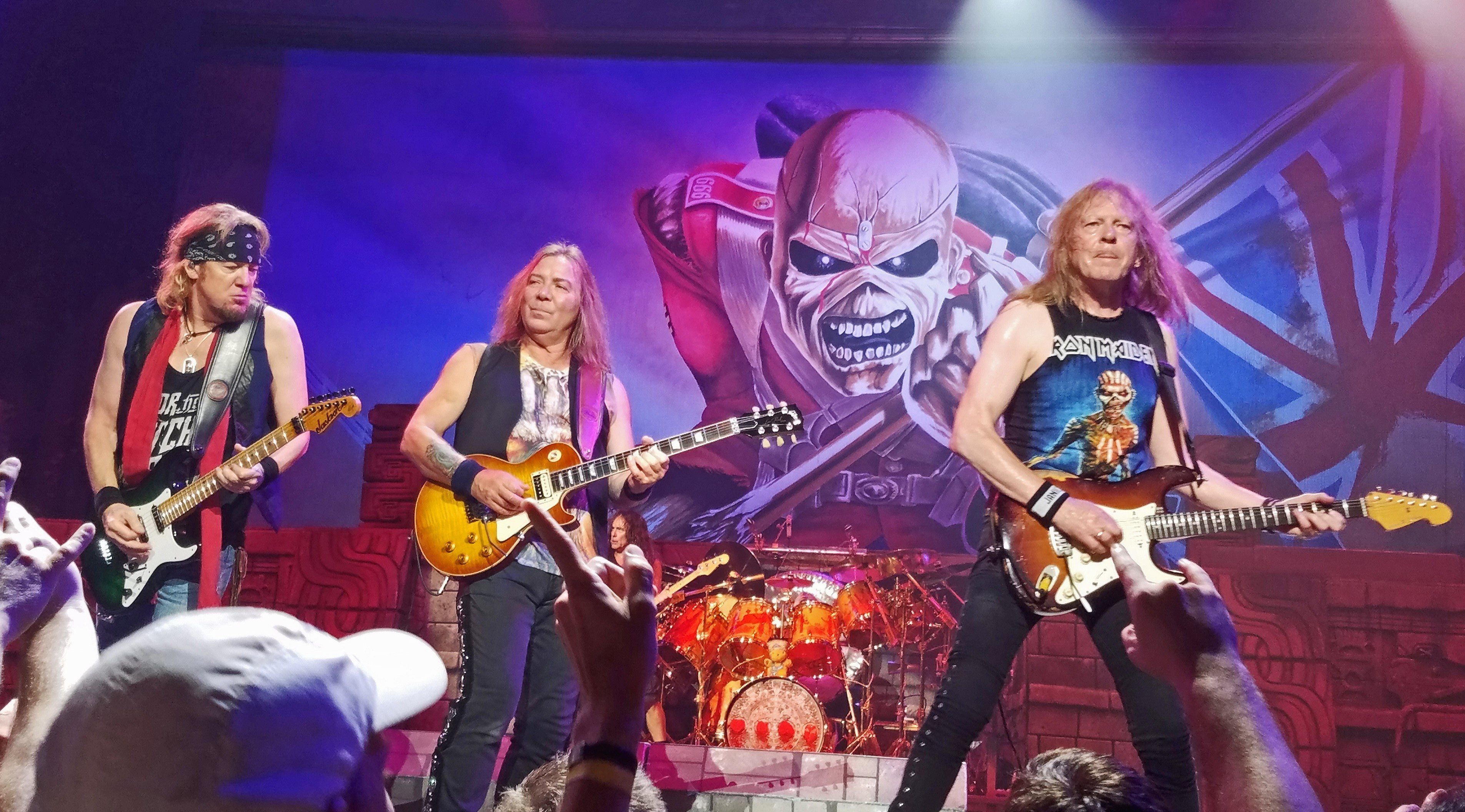 From L to R, Adrian Smith, Dave Murray, and Janick Gers play in Quebec City, July 16, 2017.